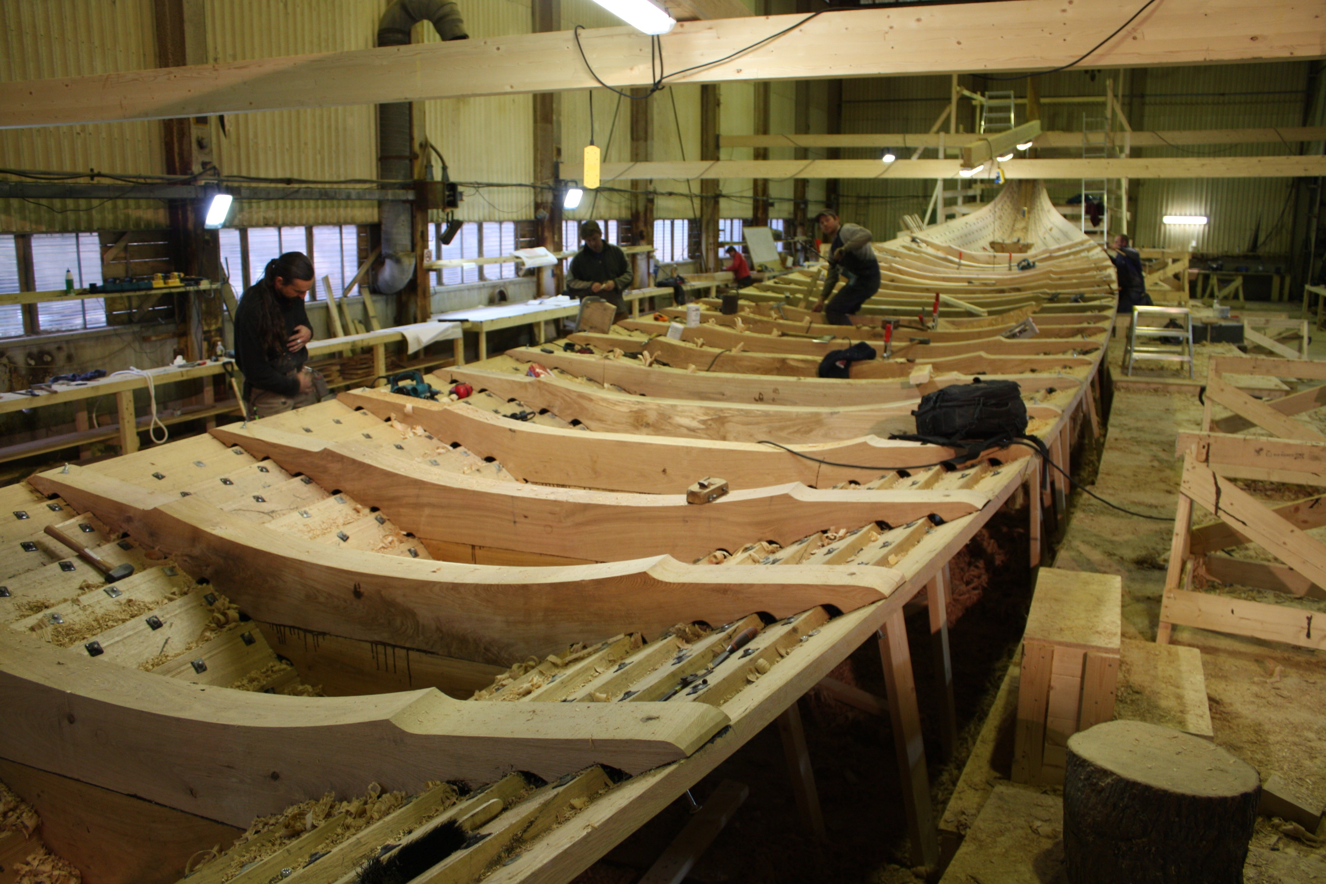 Dragon Harald Fairhar (Norwegian: Draken Harald Hårfagre) under construction in Western Norway. November 2010: Customizing of ribs.